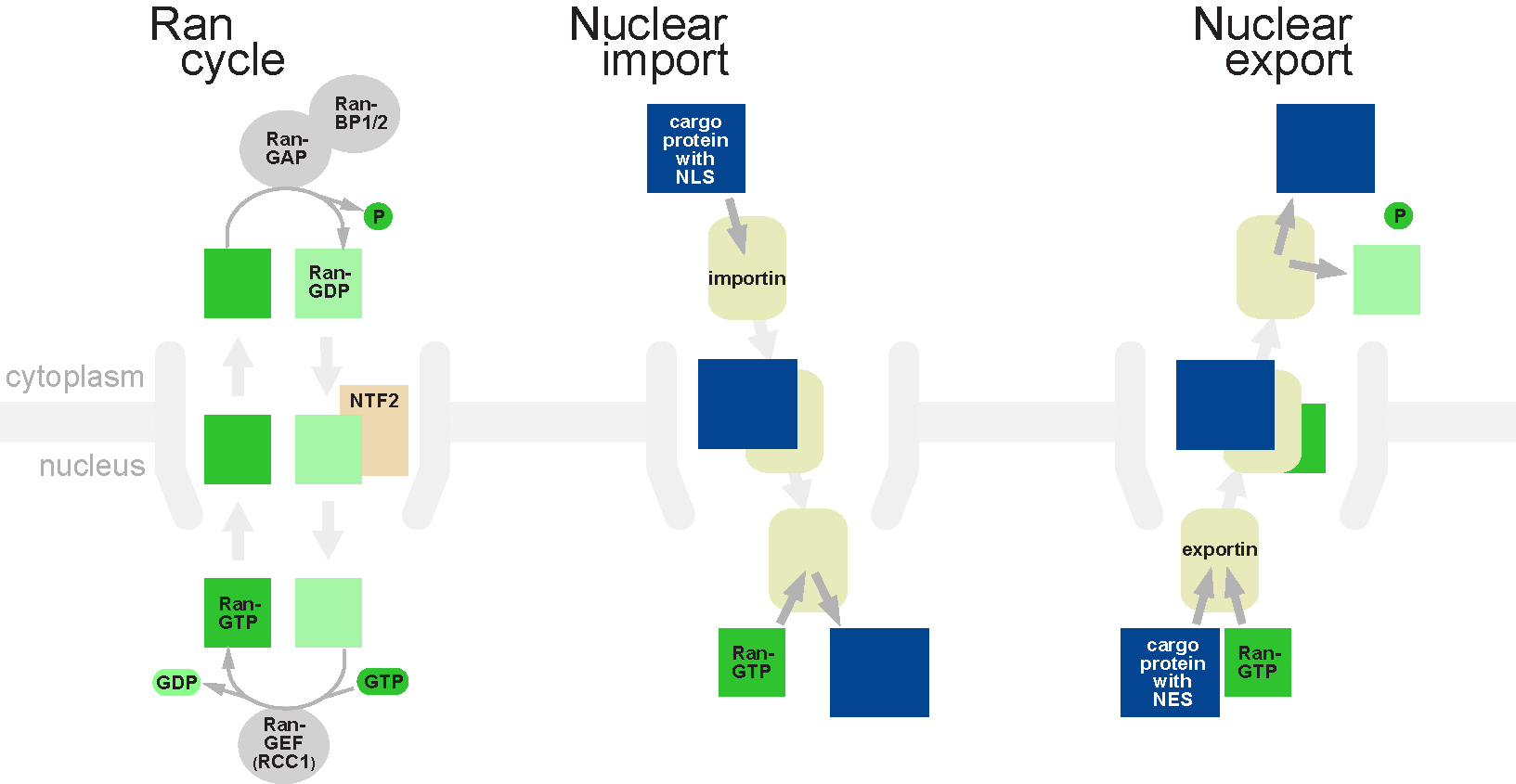 Diagram that shows the ran-cycle and the protein-export and -import through the nuclear pore